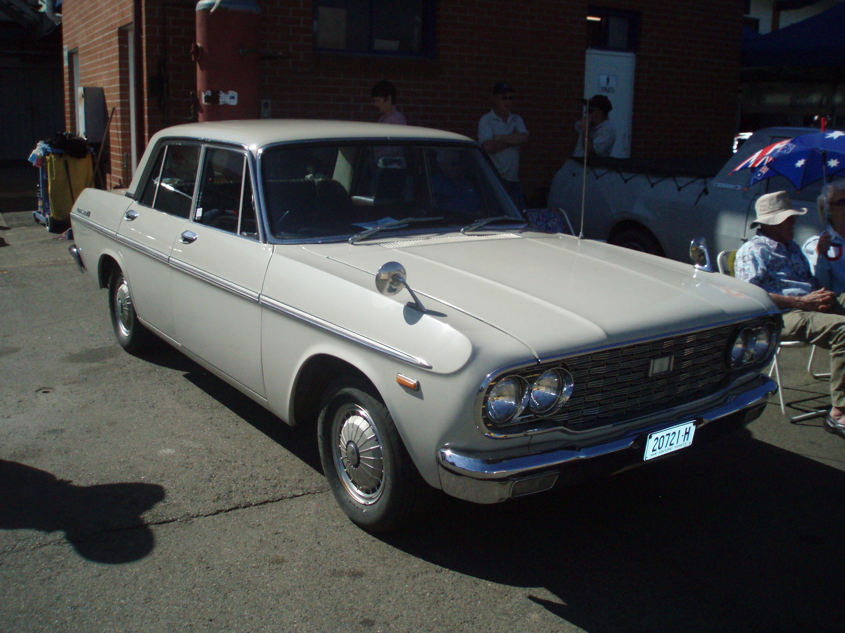 1967 Toyota Crown Deluxe 2300 sedan. Taken at Shannon's Eastern Creek Classic 2009, held at Eastern Creek Raceway Sydney.